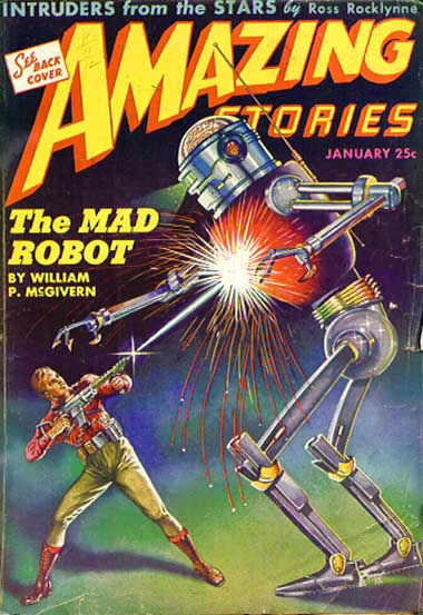 Cover of Amazing Stories, January 1944